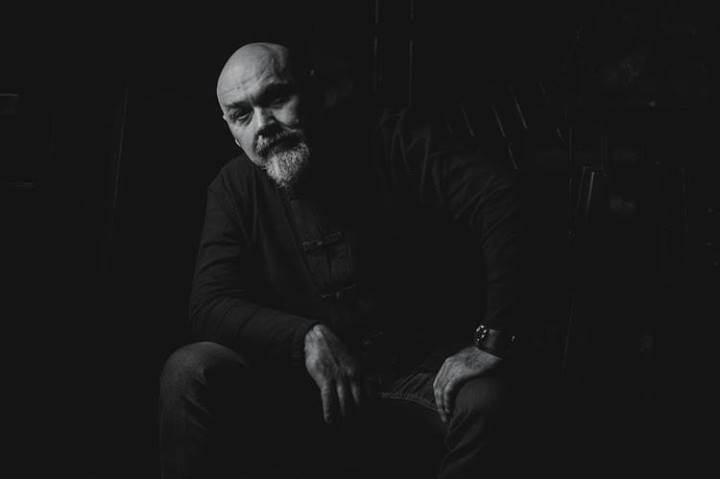 Jarosław Gibas, polish writer, columnist and blogger